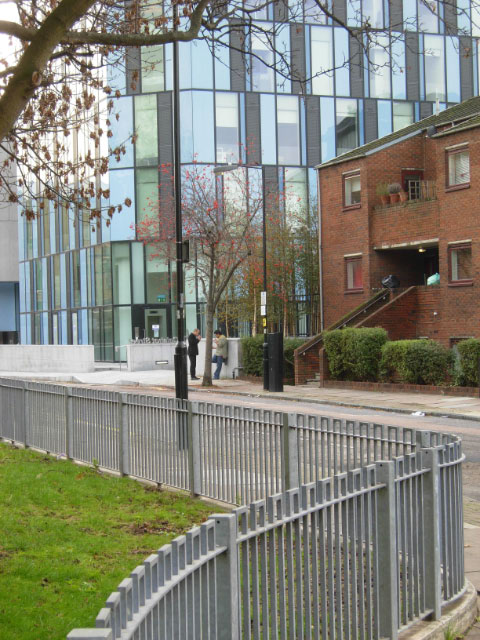 Calshot Street, Pentonville This is the southern end of Calshot Street which connects Caledonian Road with Pentonville Road. The blue building is Nido - student accommodation.